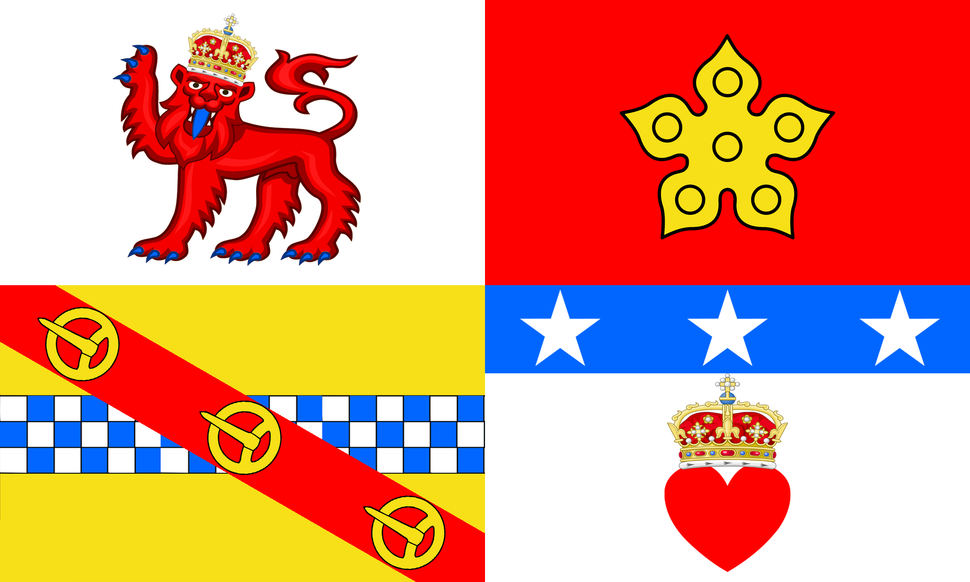 The Flag of Angus is a banner of arms (or heraldic flag) of Angus Council.